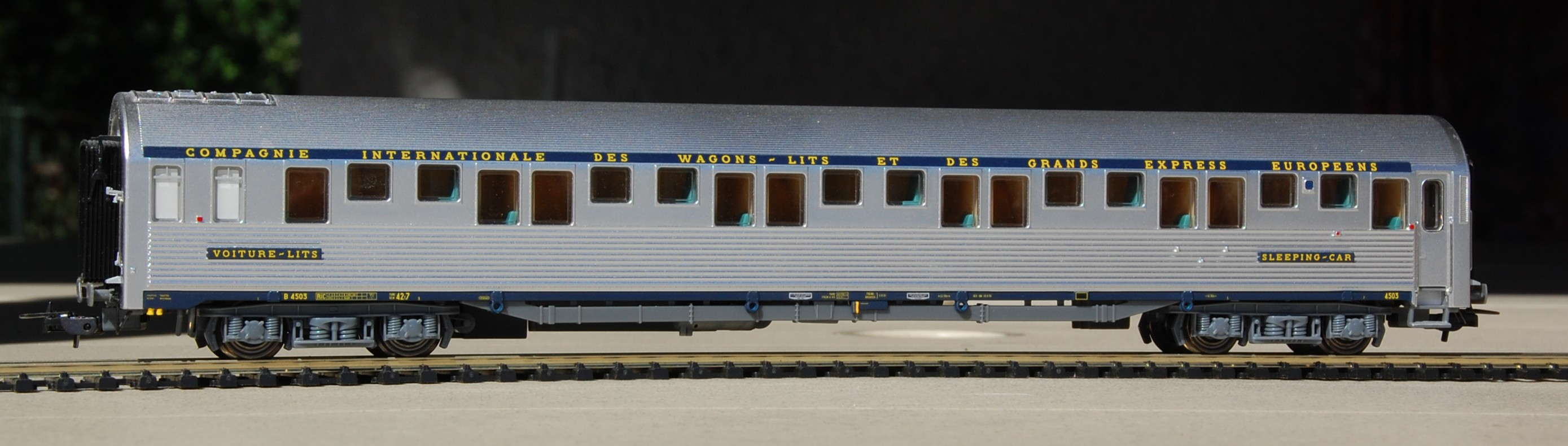 Type P sleeping car (Belgium). Scale model by LS Models.